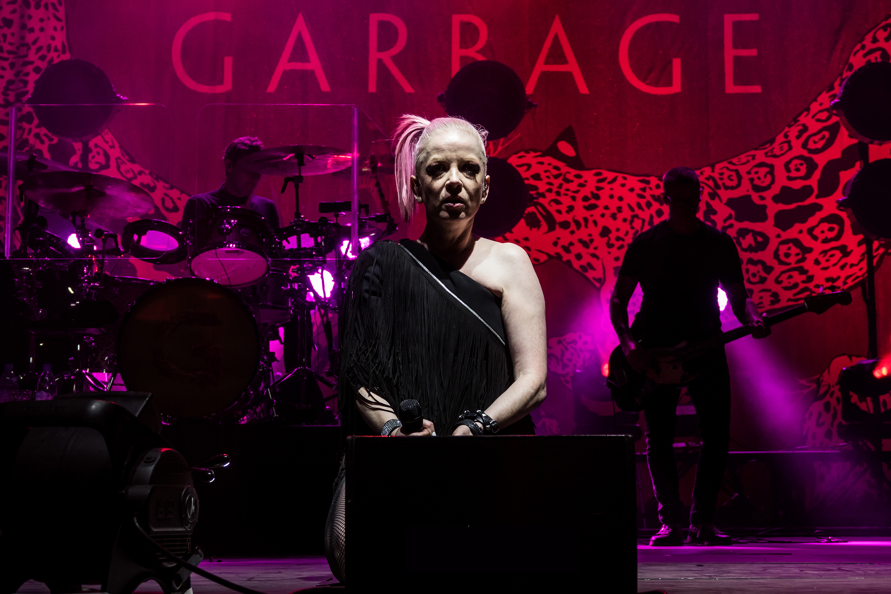 Garbage at Hollywood Forever